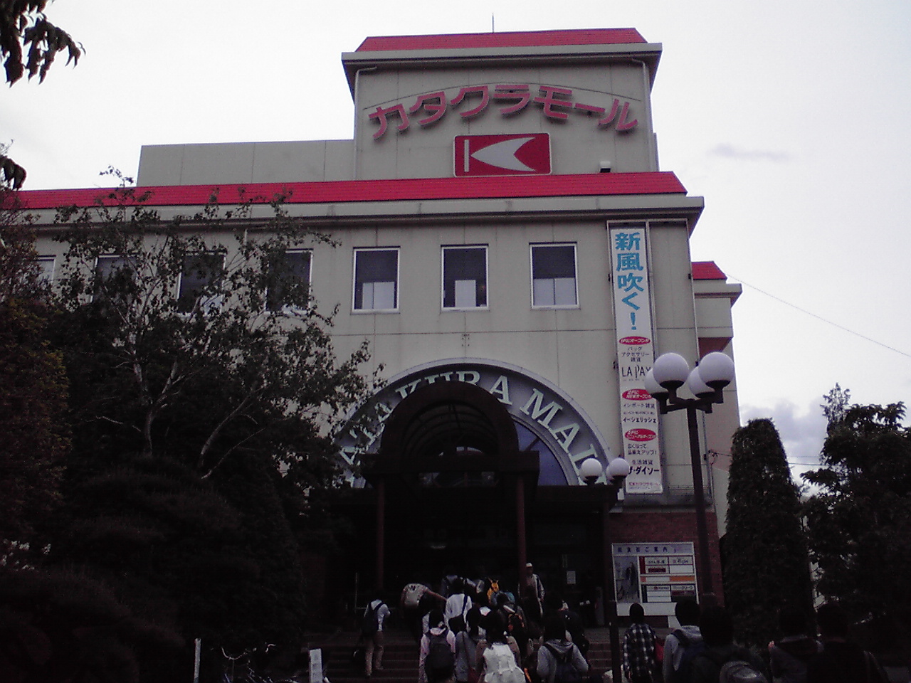 MATSUMOTO KATAKURA MALL is a mall in Matsumoto, Nagano, Japan. This mall is owned by Katakura Industries Co., Ltd.